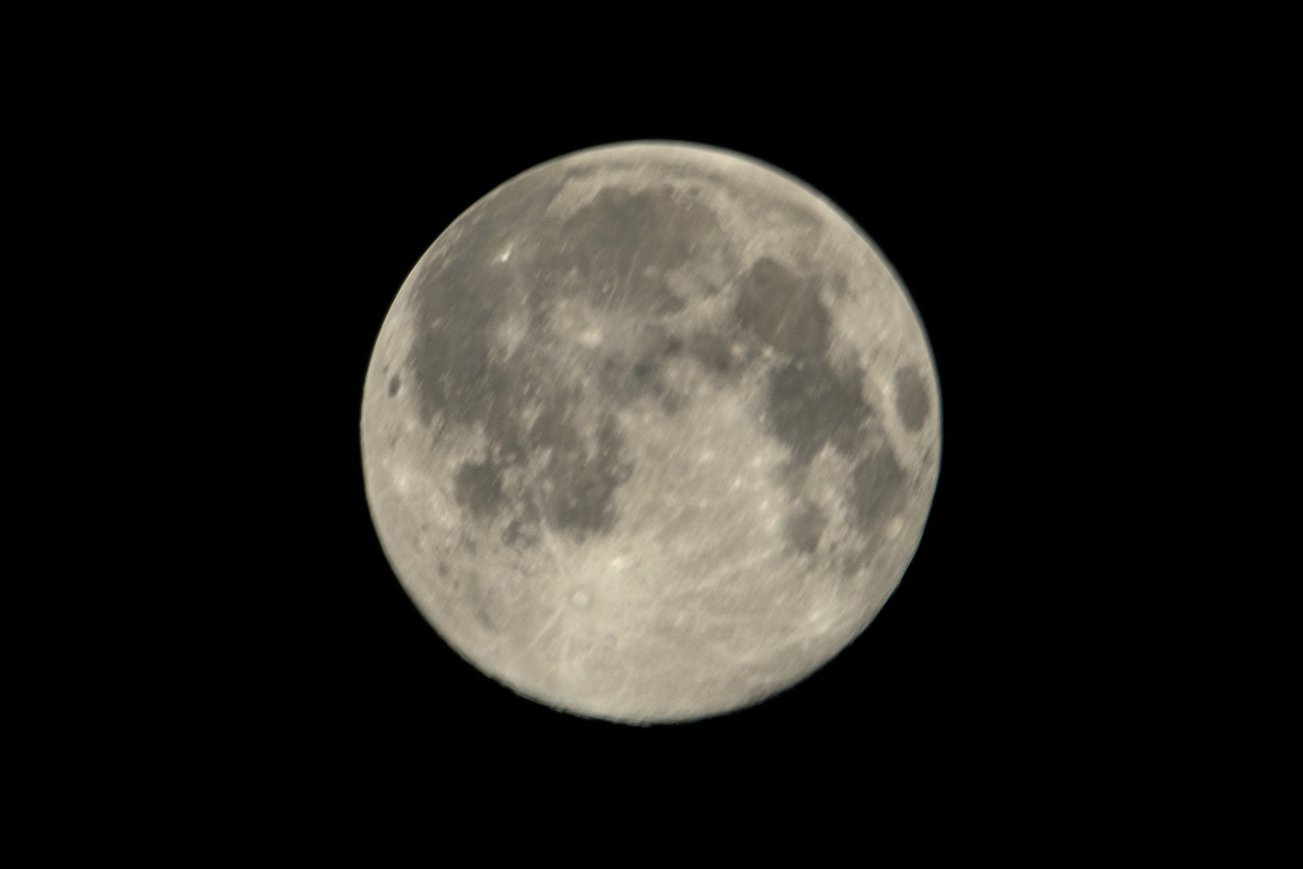 Original image taken by International Space Station Expedition 44 crewmember NASA astronaut Scott Kelly, processed by the uploader for compatibility with File:Moon Farside DSCOVR.PNG.